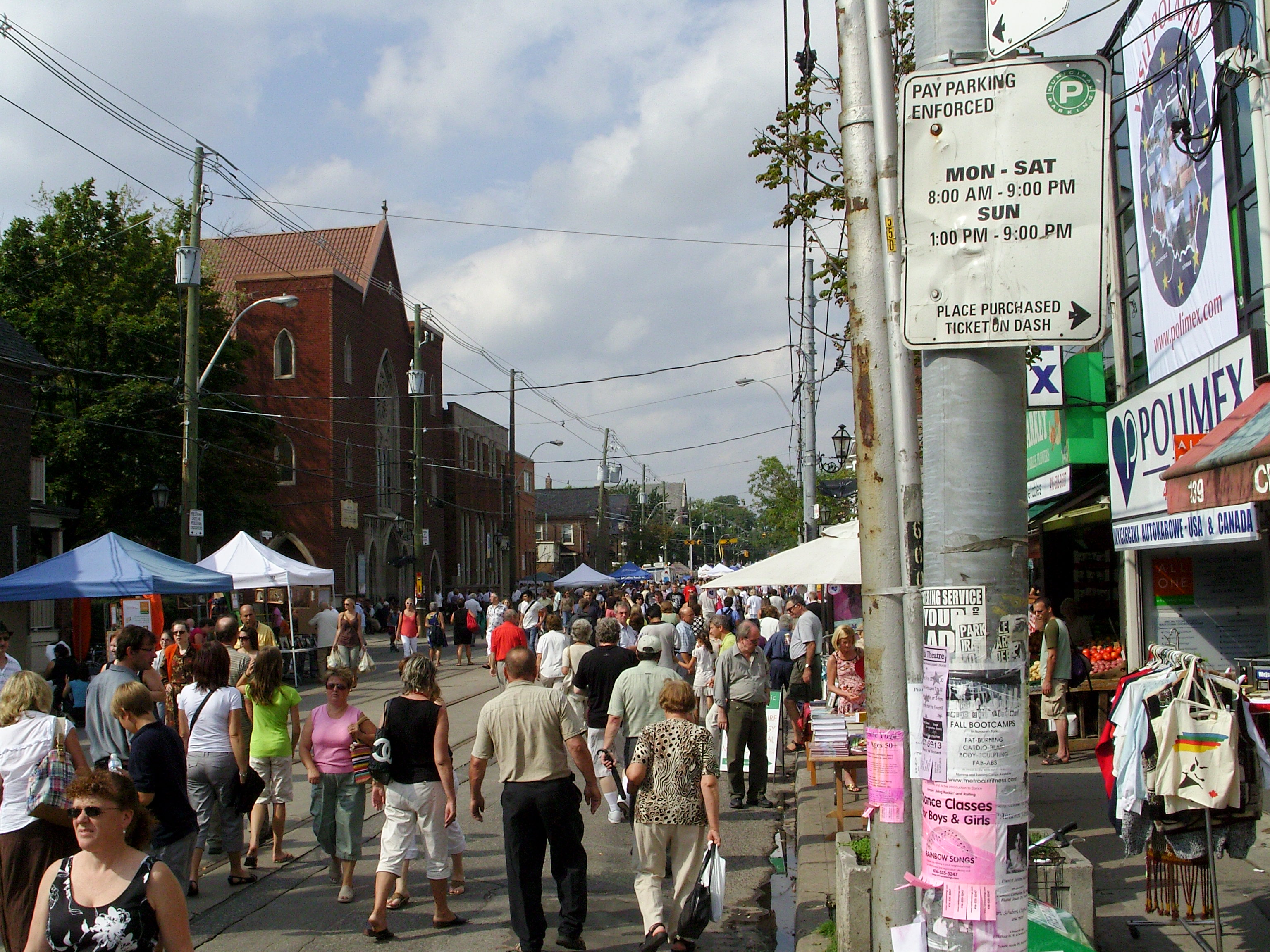 Roncesvalles is reserved for pedestrians during the Polish Festival 2008.